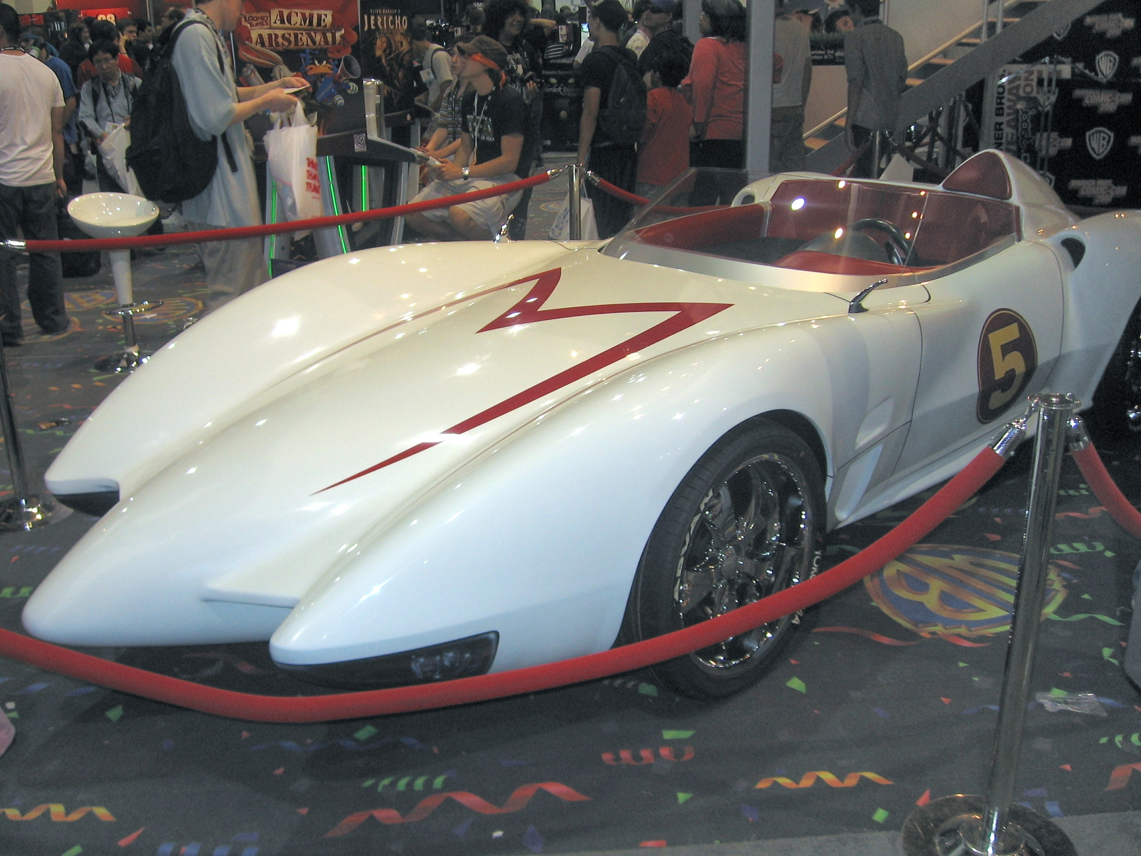 Speed Racer's Mach 5 race car from the live action motion picture, on display at Comic-Con International in San Diego, California.